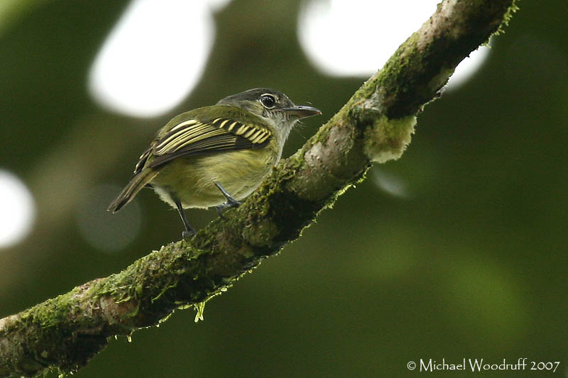 Yellow-margined Flatbill, Rio Silanche (PVM), NW Ecuador 3/9/2007